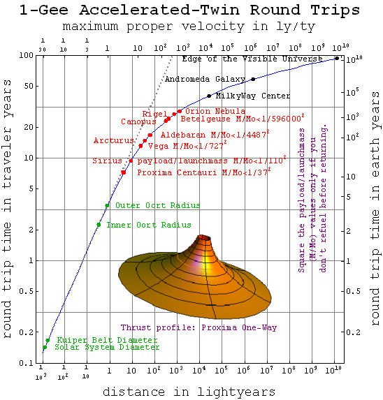 This plot illustrates how a spaceship capable of 1 g acceleration for 100 years can power a round trip to most anywhere in the visible universe, and back in a lifetime or less. Additional time will have elapsed on earth by the time that you return. This advantage of constant proper acceleration in a relativistic world arises because proper velocity change is proportional to acceleration times the change in map rather than traveler time. As those two begin to differ, the advantage (over the dotted straight line above) emerges. Of course, building a spaceship that can do this is another story.